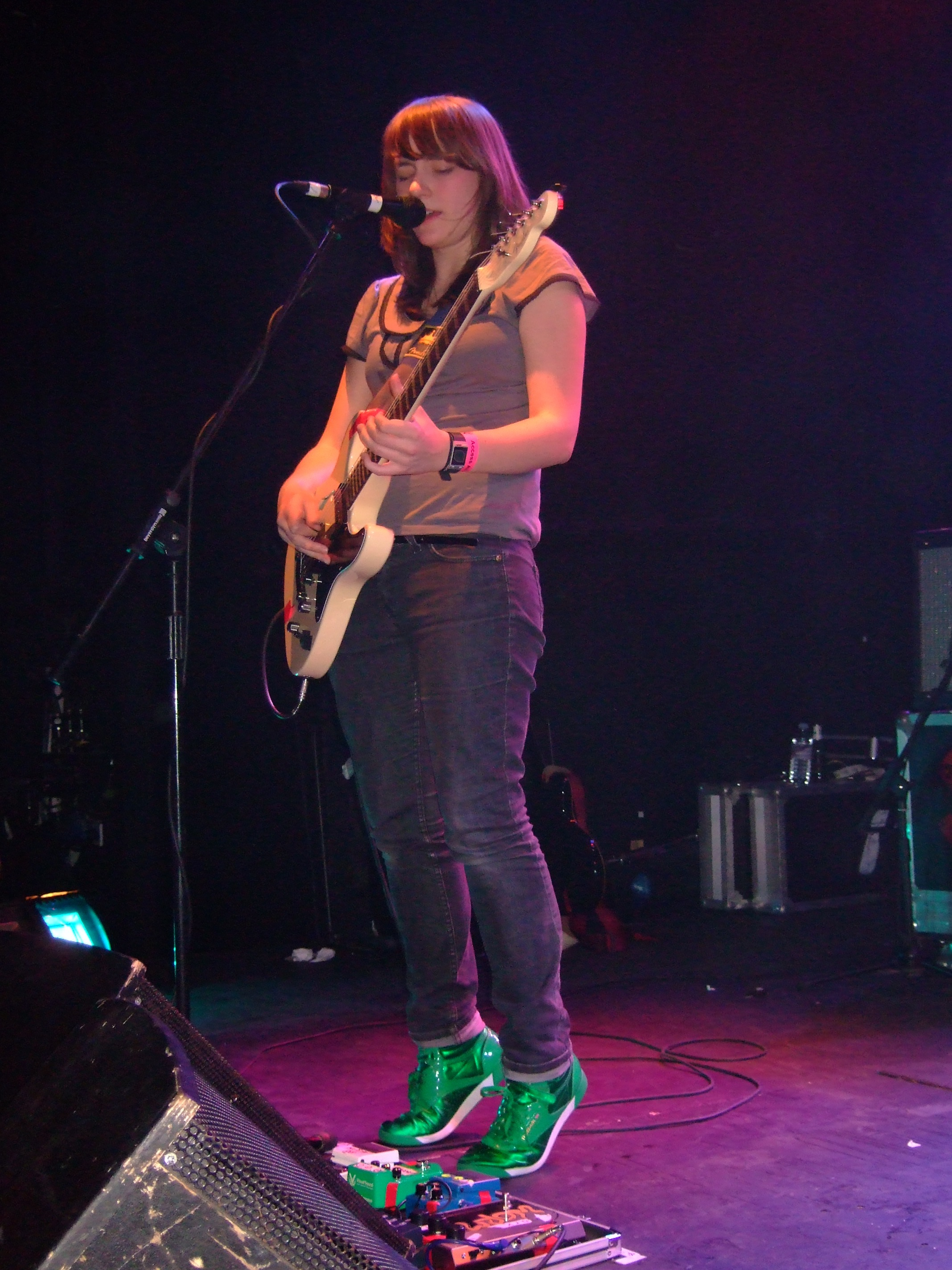 Photographed by Holly har at the ICA, London on 29 January 2009